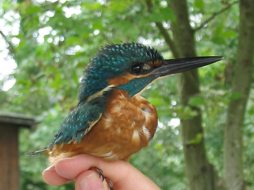 Kingfisher